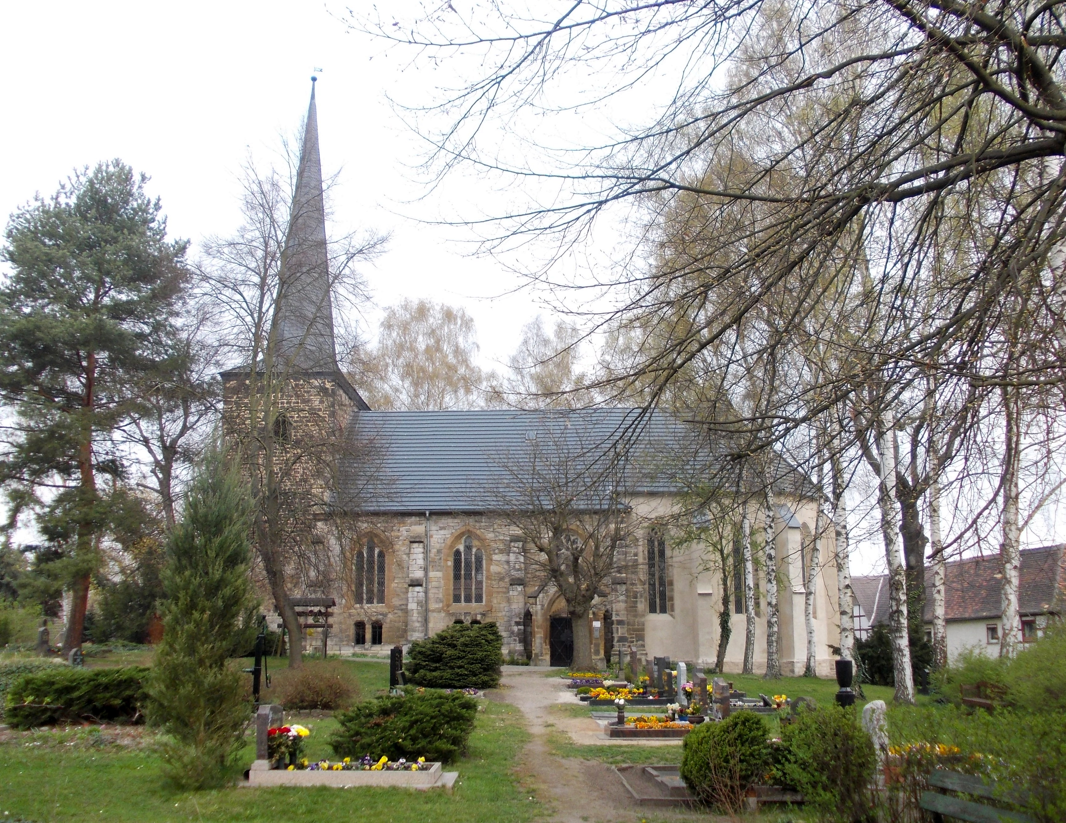 Taucha church (Hohenmölsen, district: Burgenlandkreis, Saxony-Anhalt)